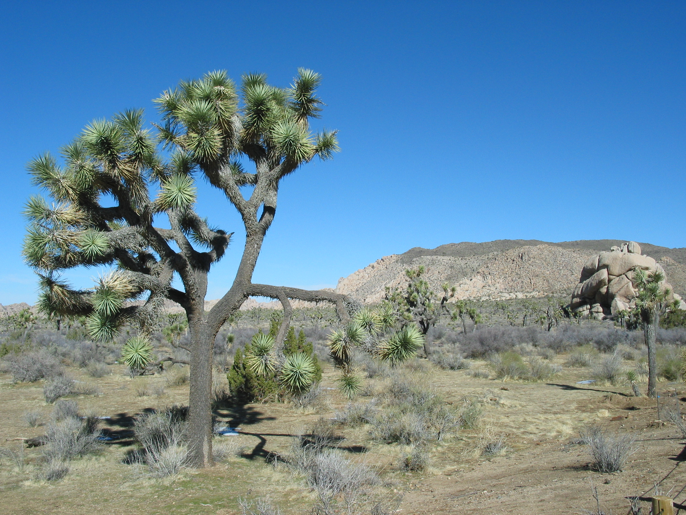 Joshue Tree National Park